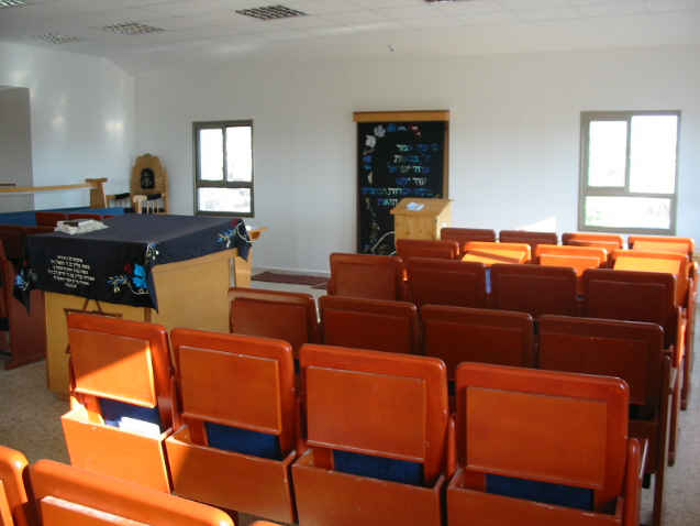 Interior of Givat Harel synagogue